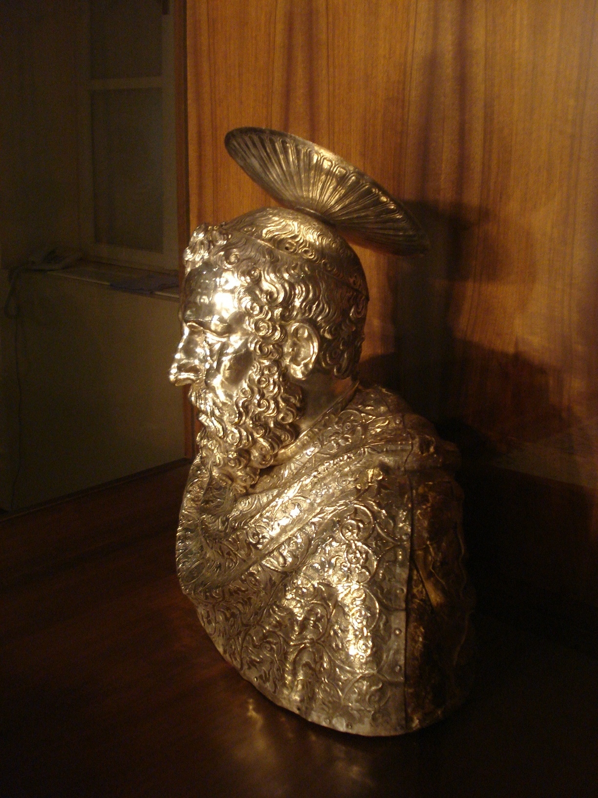 Bust (or head) reliquary of the pope Sixtus I (profile view), made in 1596, exhibited at The Permanent Ecclesiastical Art Exhibition "The Gold and Silver of Zadar" in the St. Mary's Church, Zadar, CroatiaHrvatski: Bista-relikvijar pape Siksta I. (pogled sa strane), izrađen 1596, izložen na Stalnoj izložbi crkvene umjetnosti "Zlato i srebro Zadra" u crkvi sv. Marije u Zadru, Hrvatska